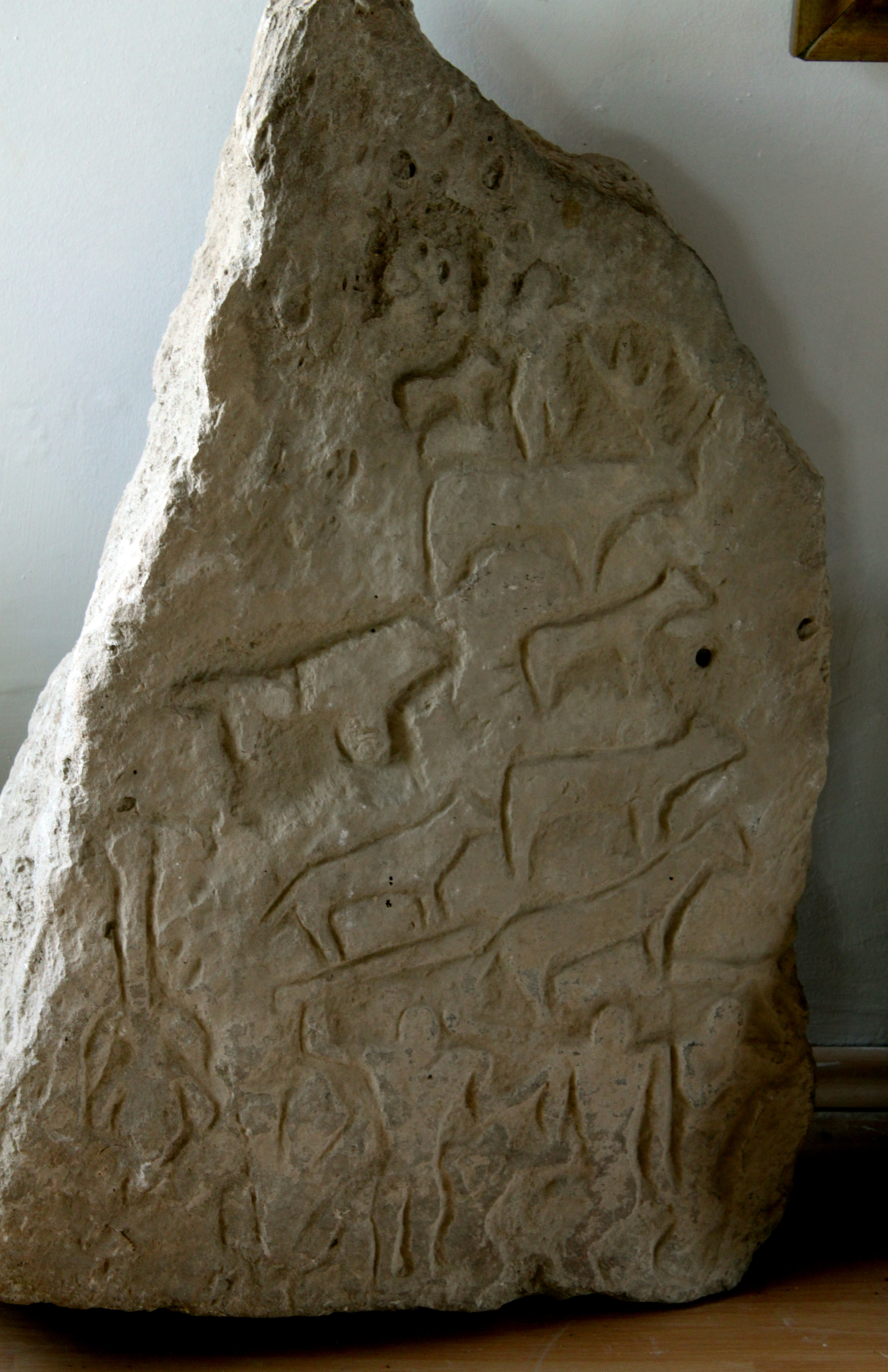 Meseolitic era zoomorphic rock stone from Gobustan